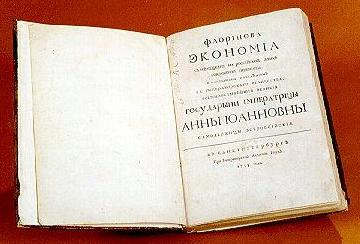 Cover of the book translated by S.S.Volchkov.